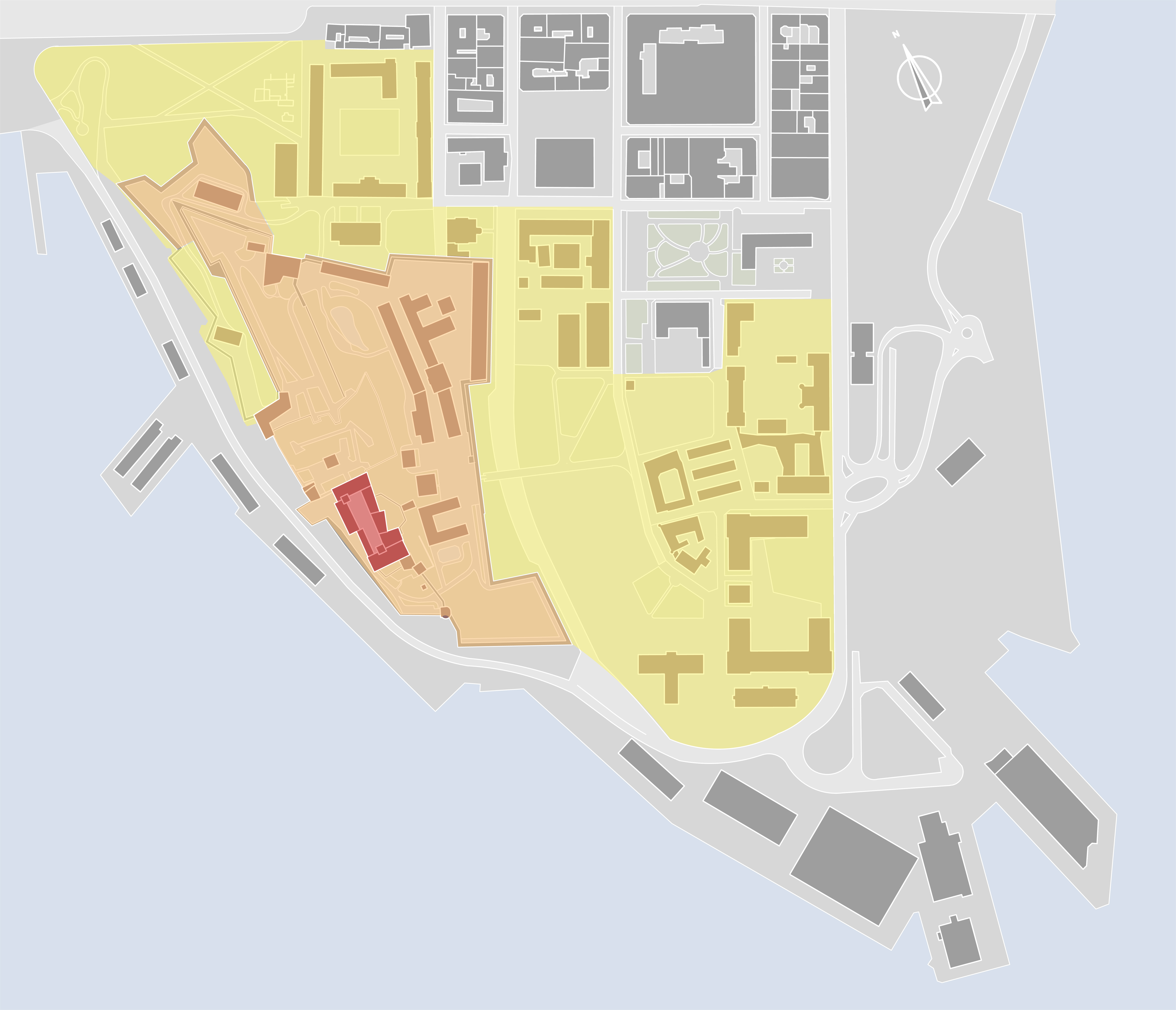 castle (red), main fortress (orange), area within the former barbicans (yellow)